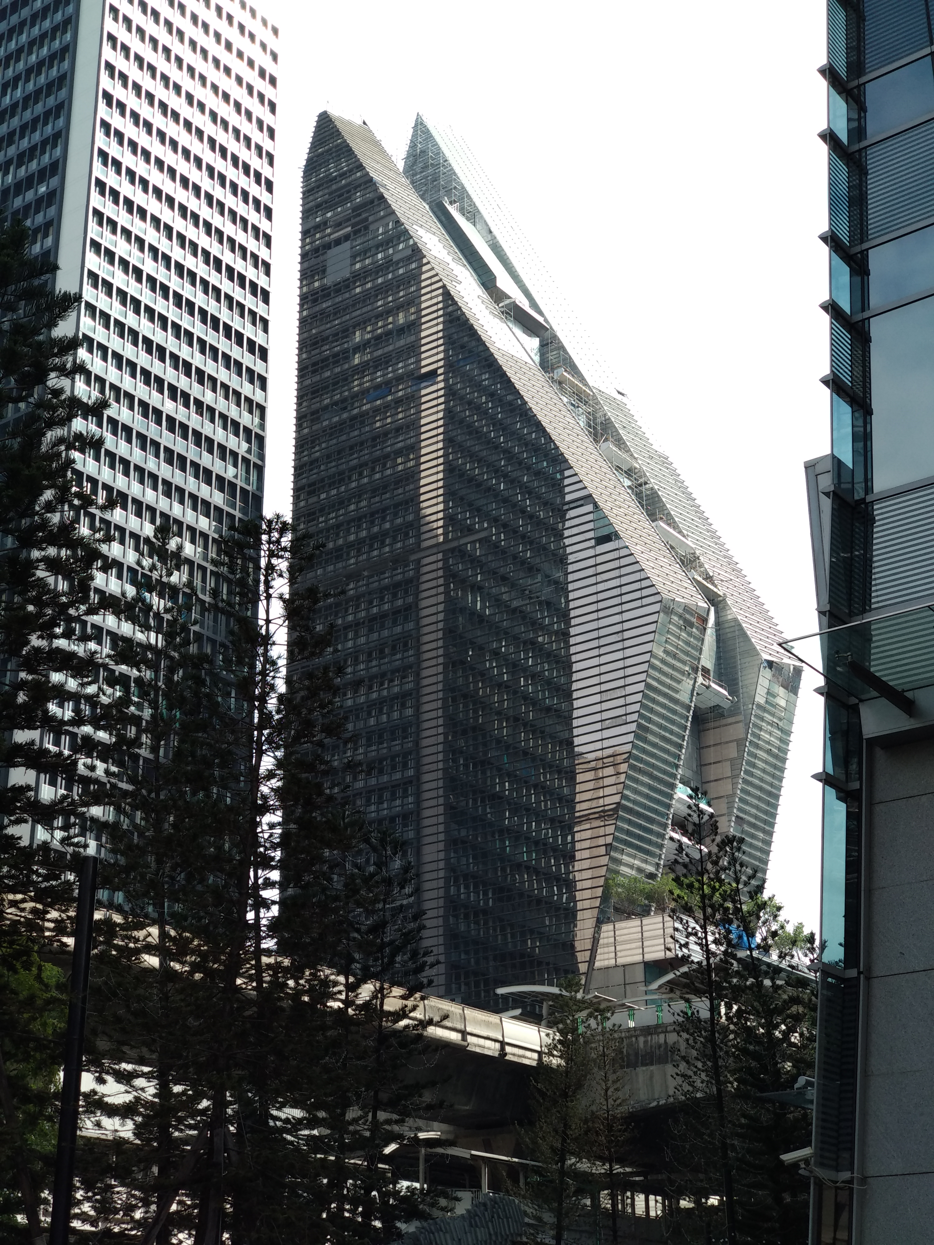 Rosewood Hotel in Bangkok as seen from the front entrance of Park Ventures.